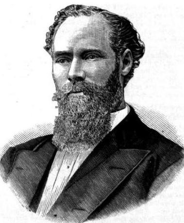 Horace B. Strait, US Representative from Minnesota